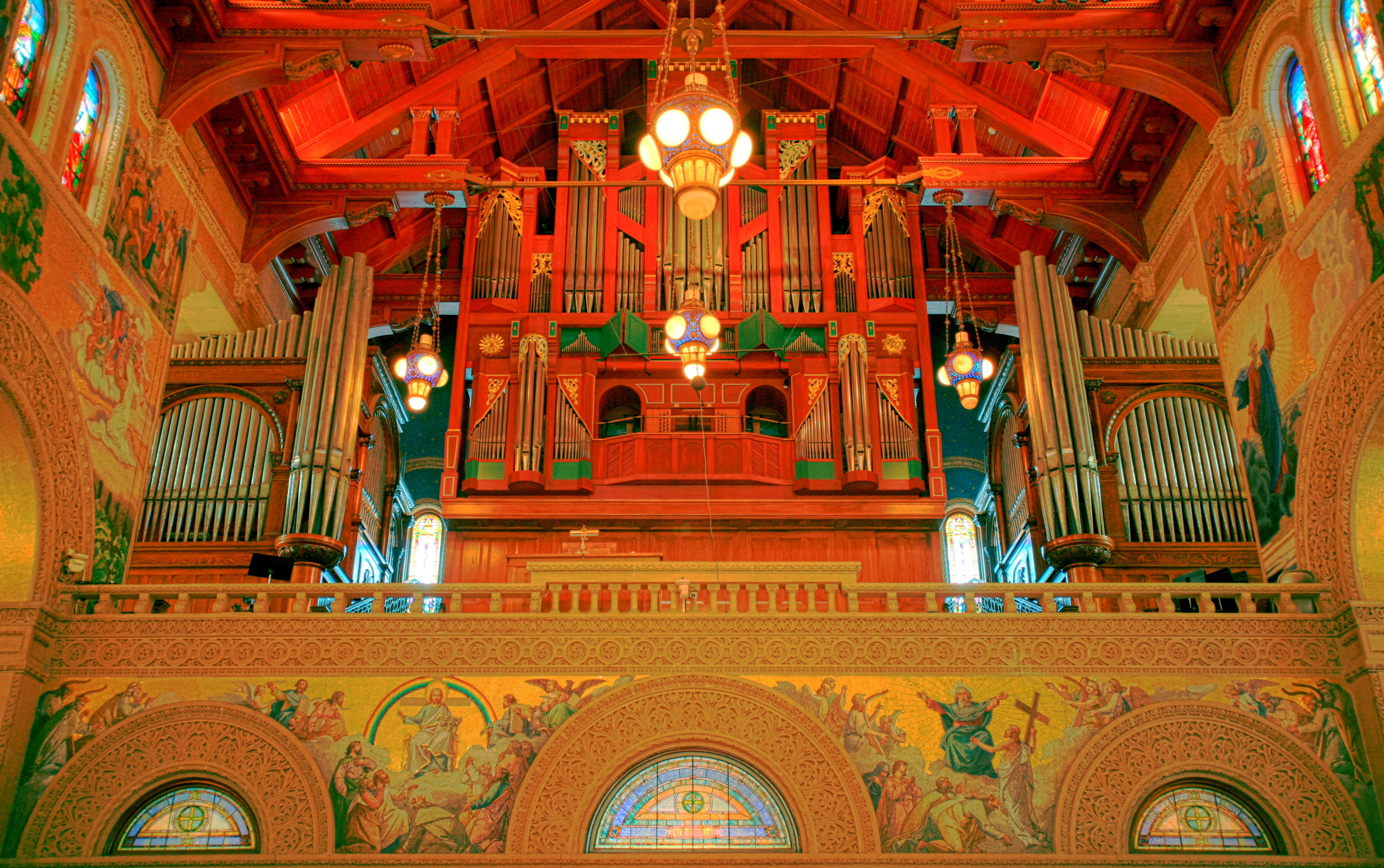 View of the Fisk-Nanny organ in the Stanford Memorial Church in California, USA.